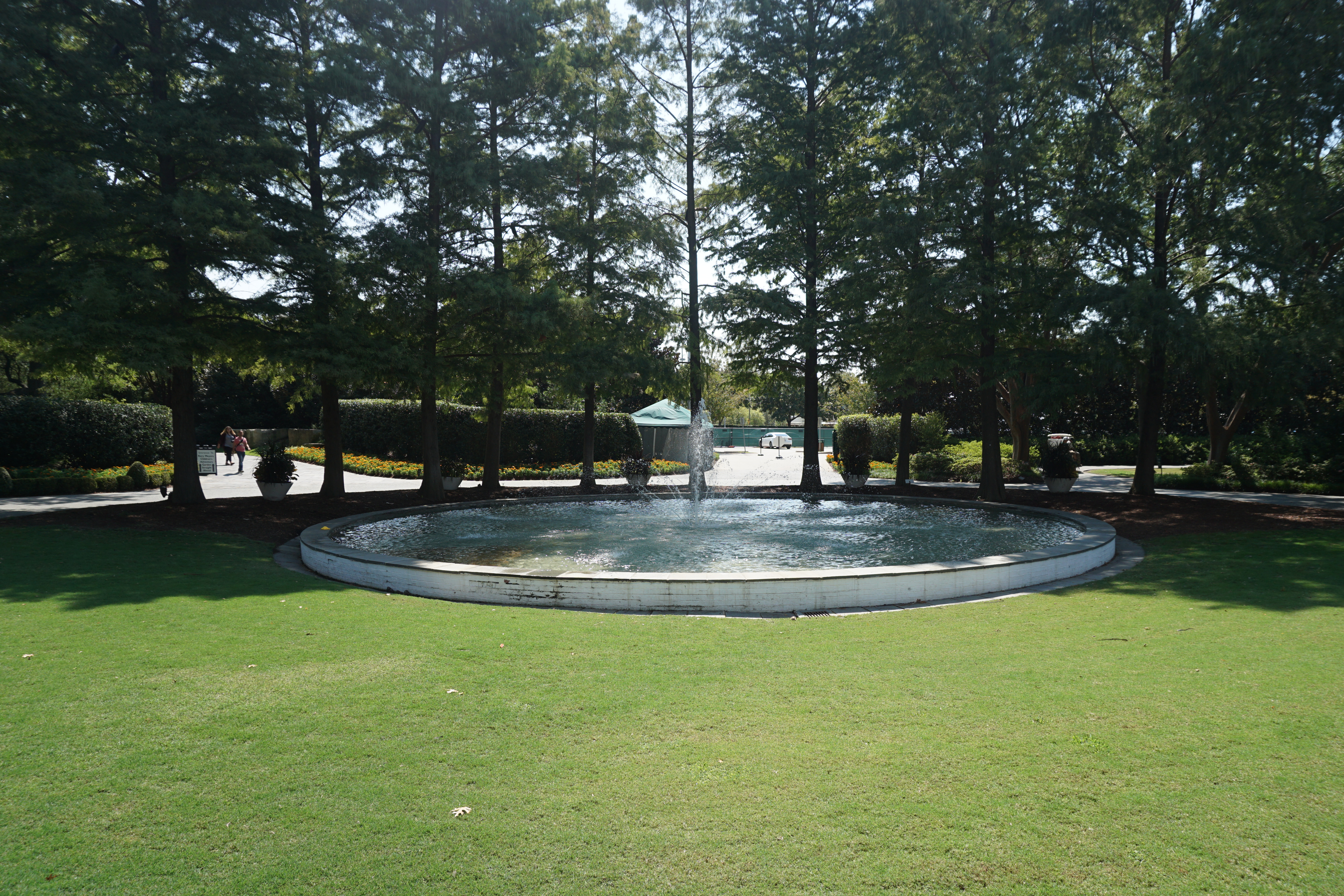 Fogelson Fountain at the Dallas Arboretum and Botanical Garden in Dallas, Texas (United States).